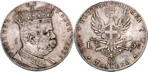 Italy, Colonial for Eritrea. Umberto I. 1878-1900. AR 5 Lire -1 Tallero a.k.a Tallero d'Eritrea (41mm, 28.15 g, 12h). Dated 1891. Crowned bust right Crowned eagle with coat-of-arms. Reeded edge. ref: KM 4.